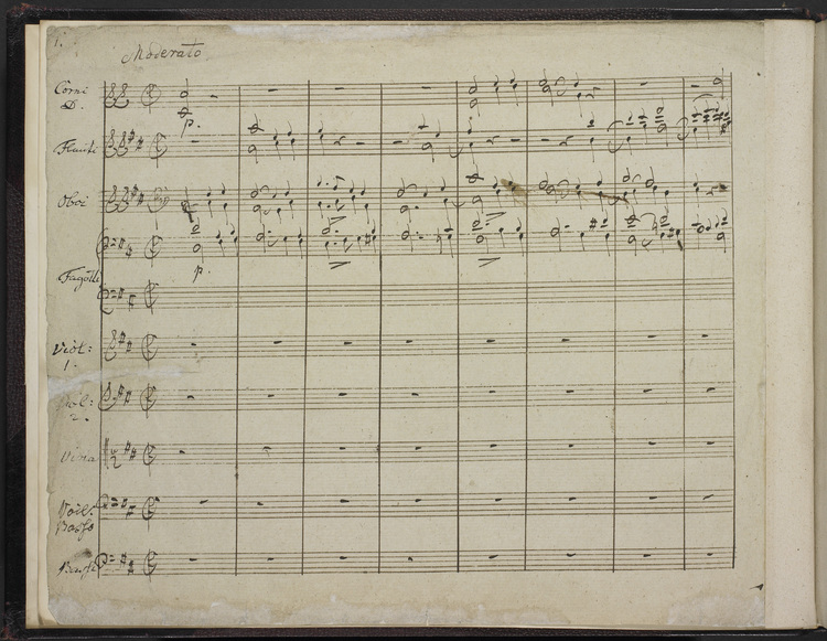 A handwritten page from the manuscript score of Vater unser, written in the author's own hand. Held and digitised by the British Library.